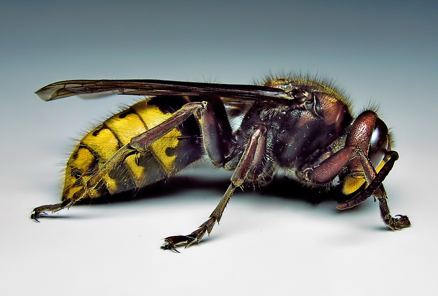 European Hornet. From head to tail, this hornet was approximately 7/8 of an inch long